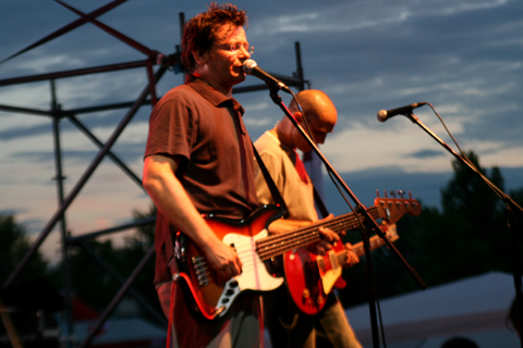 Kispál és a Borz performing in Zamárdi, on Balaton Sound Festival 2007